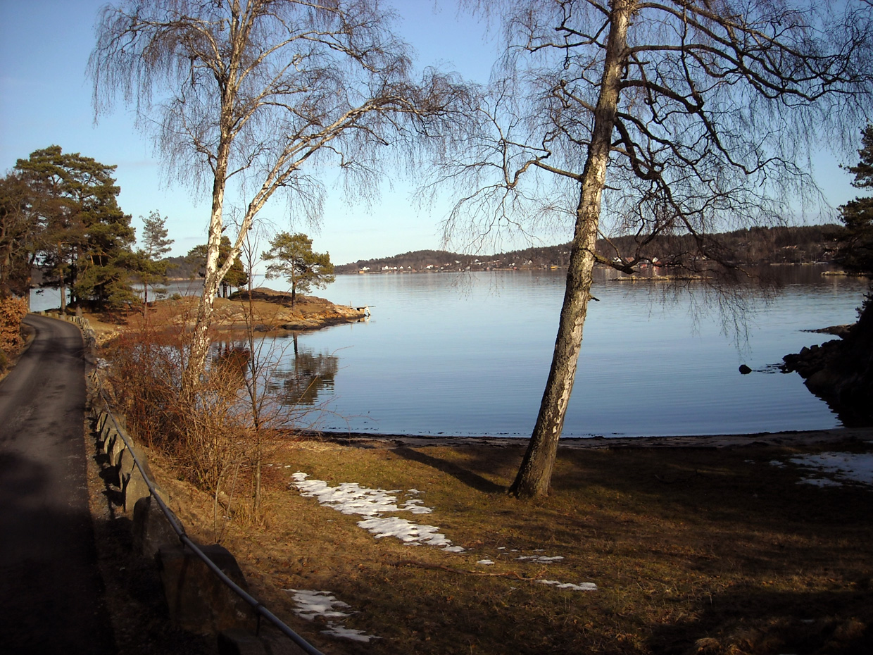 Beach at Buoya island, Arendal, Norway